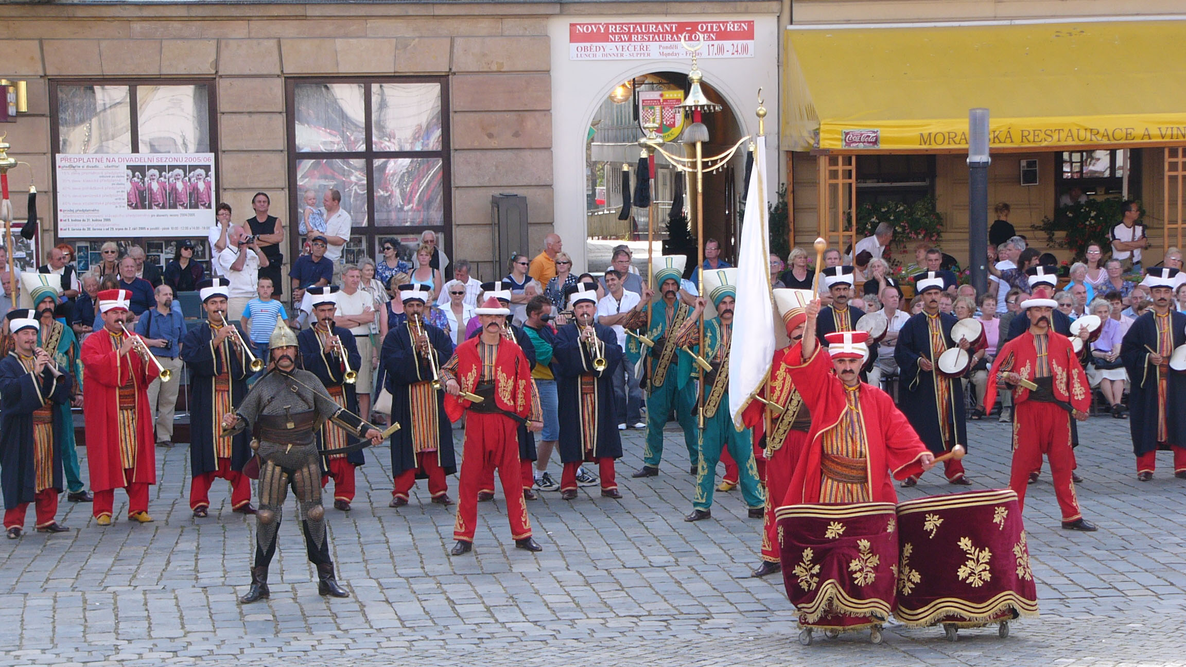 Janissary marching band.